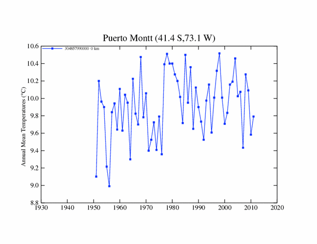 Climate graph of 1951 2008 air average temperaturas of Puerto Montt, Chile